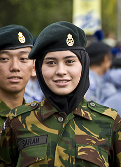 Princess Sarah of Brunei in her army cadets uniform in 2009.